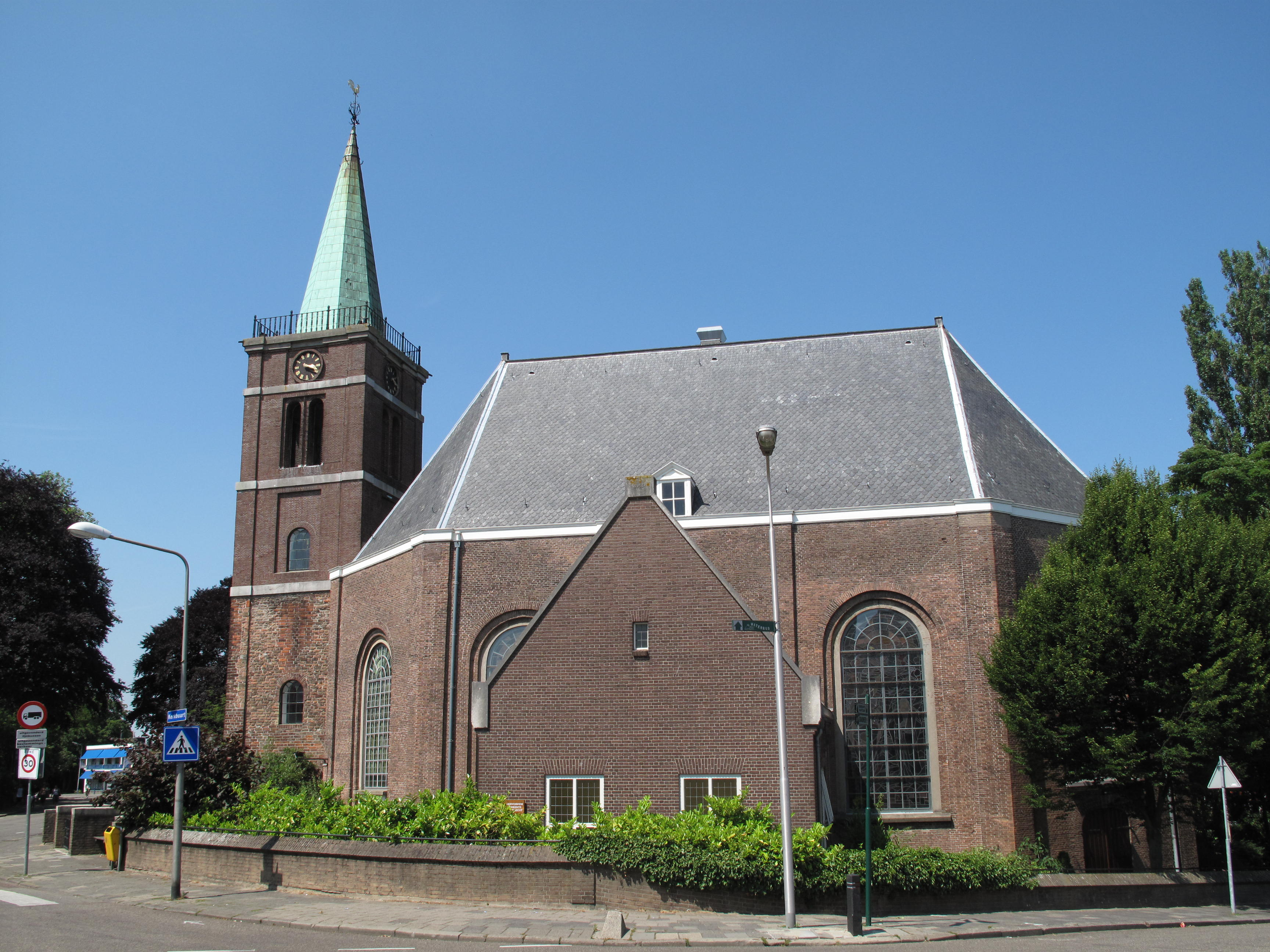 Sliedrecht, church